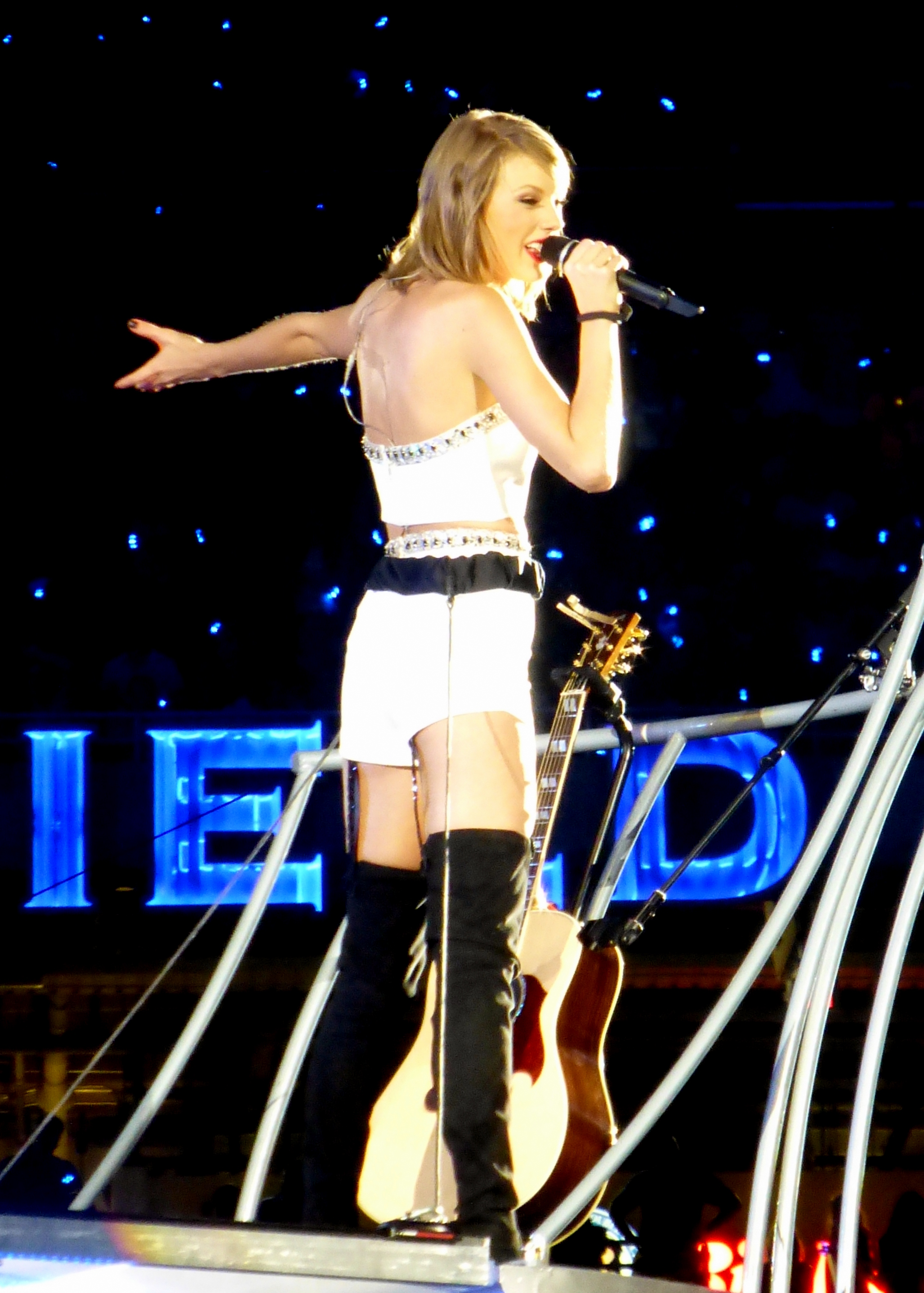 Taylor Swift 1989 Tour at Ford Field in Detroit, 5/30/15